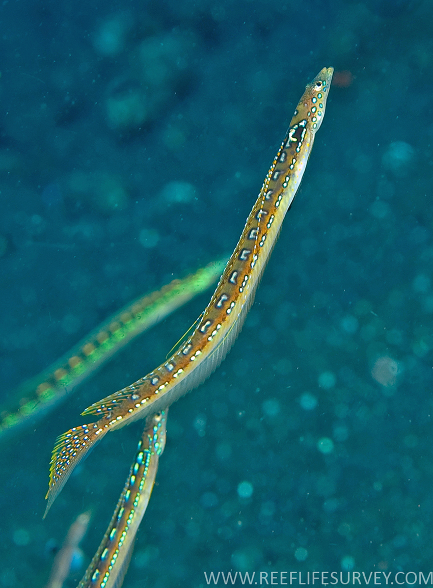 legant Sand Divers, Trichonotus elegans, at Tulamben, Bali, Indonesia.